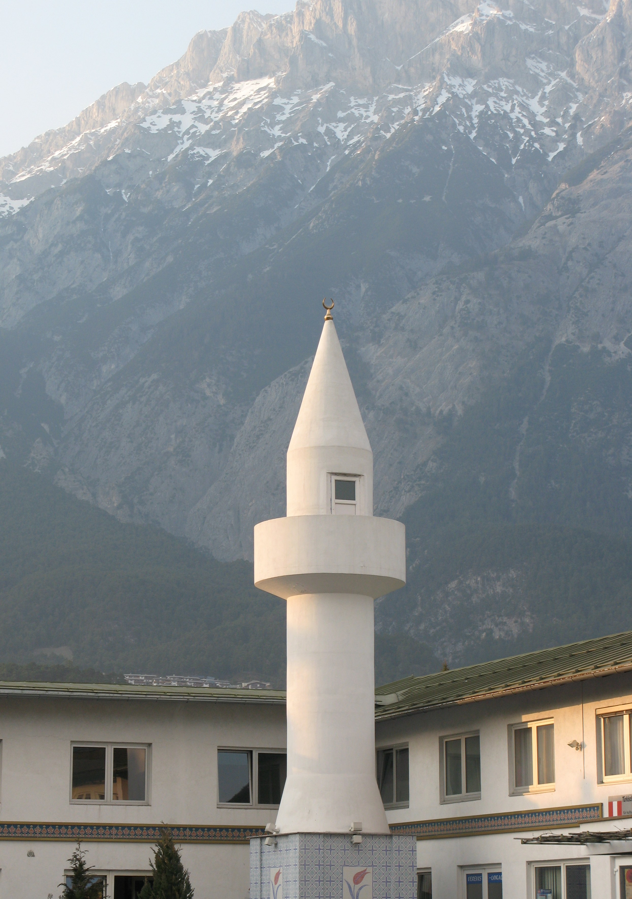 Minarett von Telfs in Tirol (Österreich) Minaret in Telfs Tyrol (Austria) Minareto di Telfs (Austria)